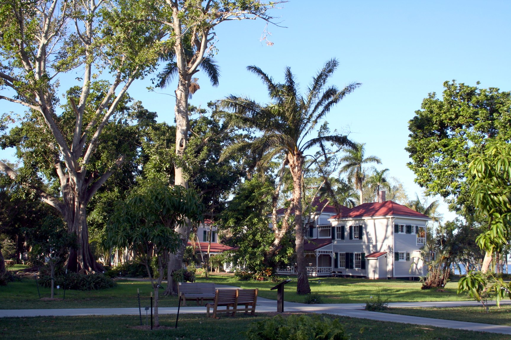 Photograph of ghe Edison winter home in Fort Myers, Florida, USA taken by Rolf Müller on January 26 2006 using a Canon Inc. EOS 350D digital camera with an EFS 18-55mm lens